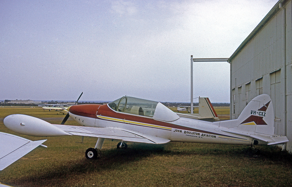 De Havilland Chipmunk T.10 modified as the Sundowner tourer. At Sydney Bankstown in 1970.